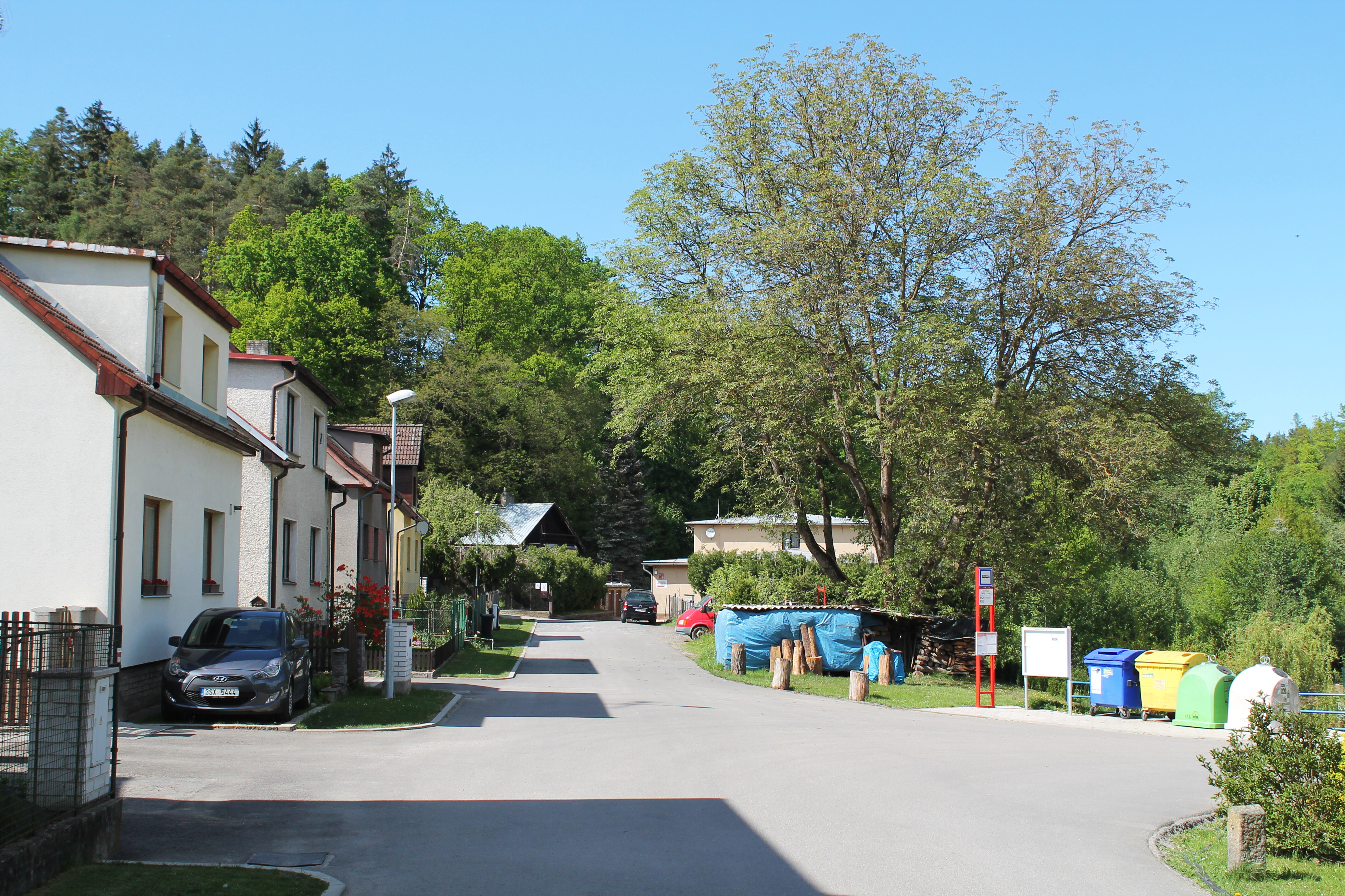 Racek, Chlístov, Benešov District, Czech Republic